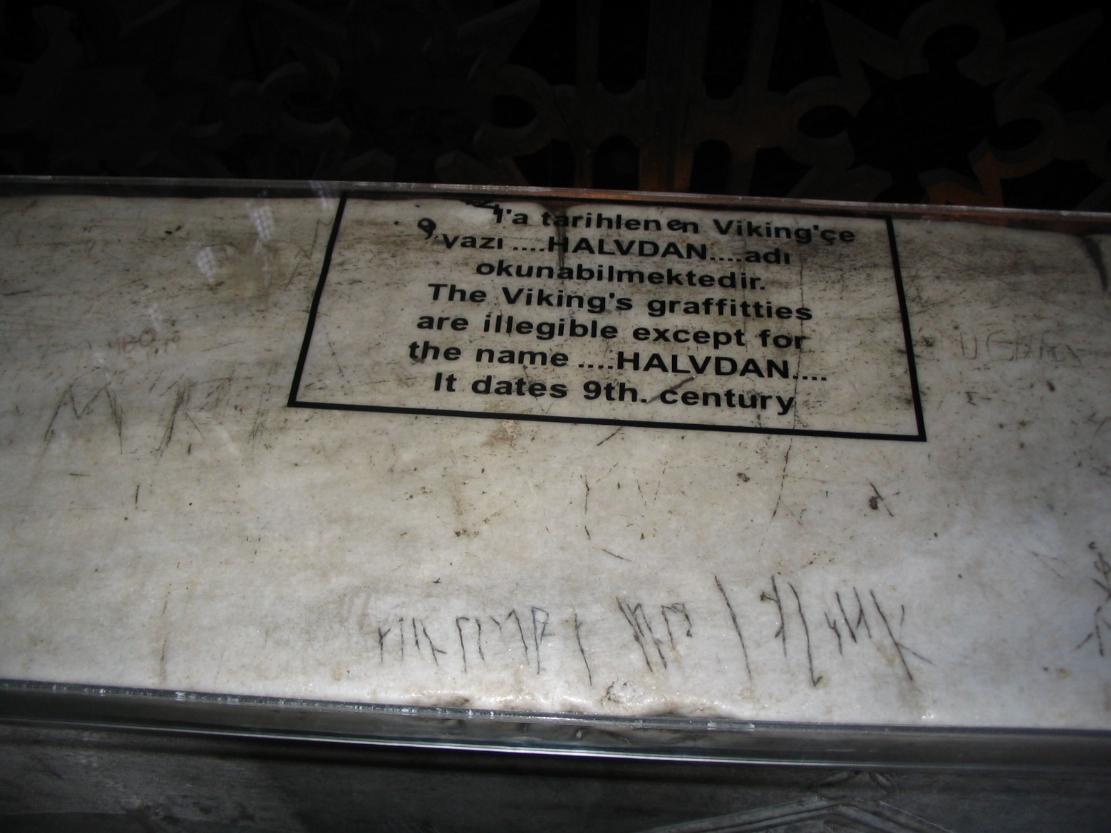 Graffiti presumably inscribed by Viking mercenaries on the second floor of the Hagia Sofia. Photo taken in May, 2005.Not home 21:29, 7 May 2007 (UTC)